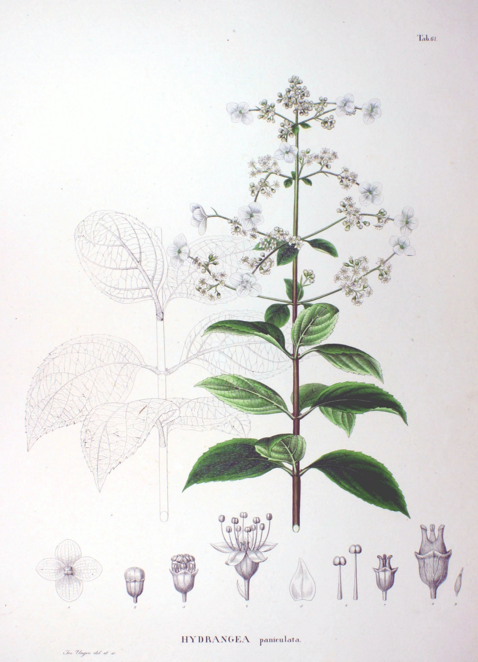 Hydrangea paniculata Plate from book